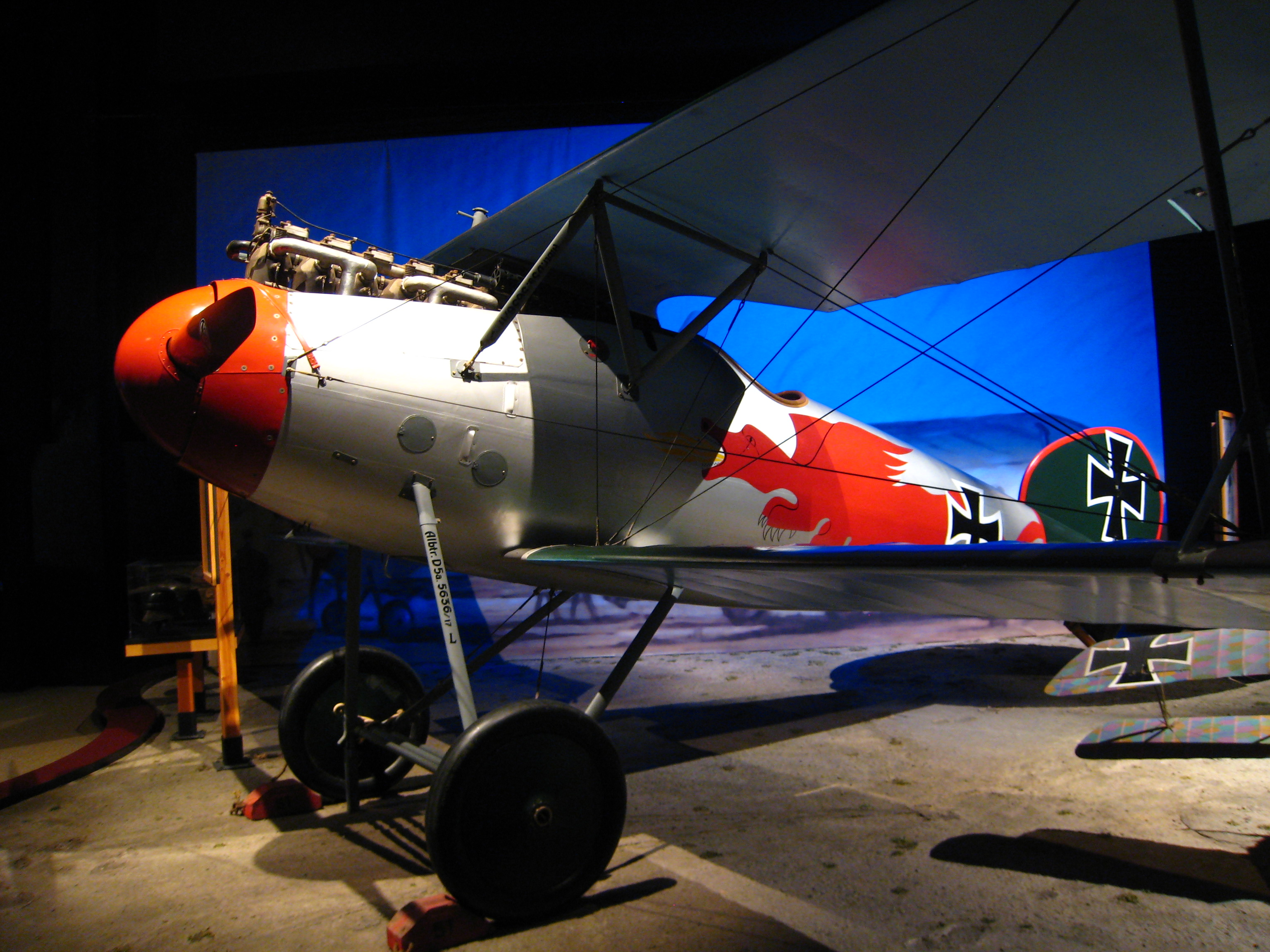 Reproduction of an Albatros D.Va fighter airplane at The Museum of Flight, Seattle, WA.